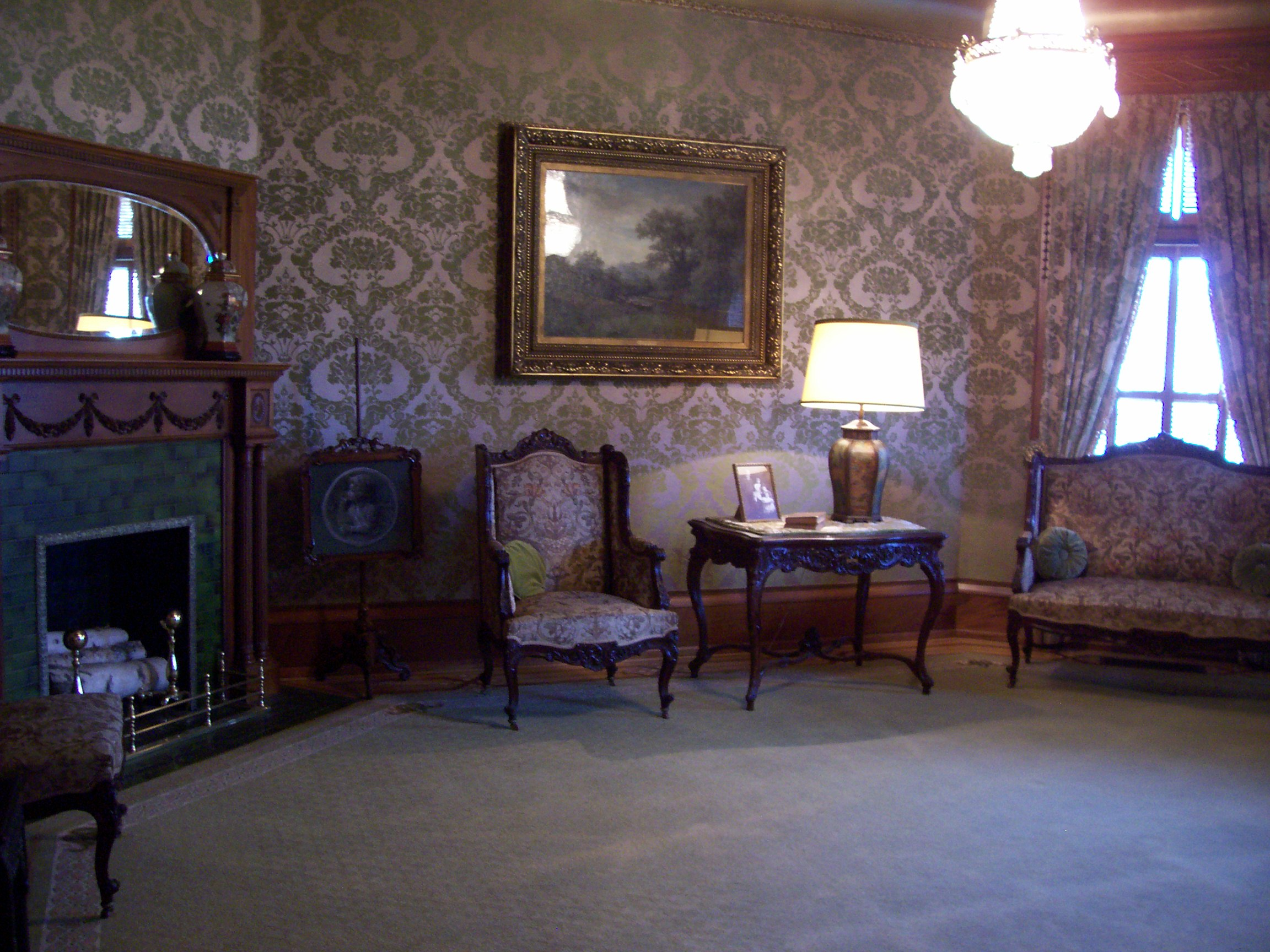 The Rahr Parlor at the Rahr West Art Museum